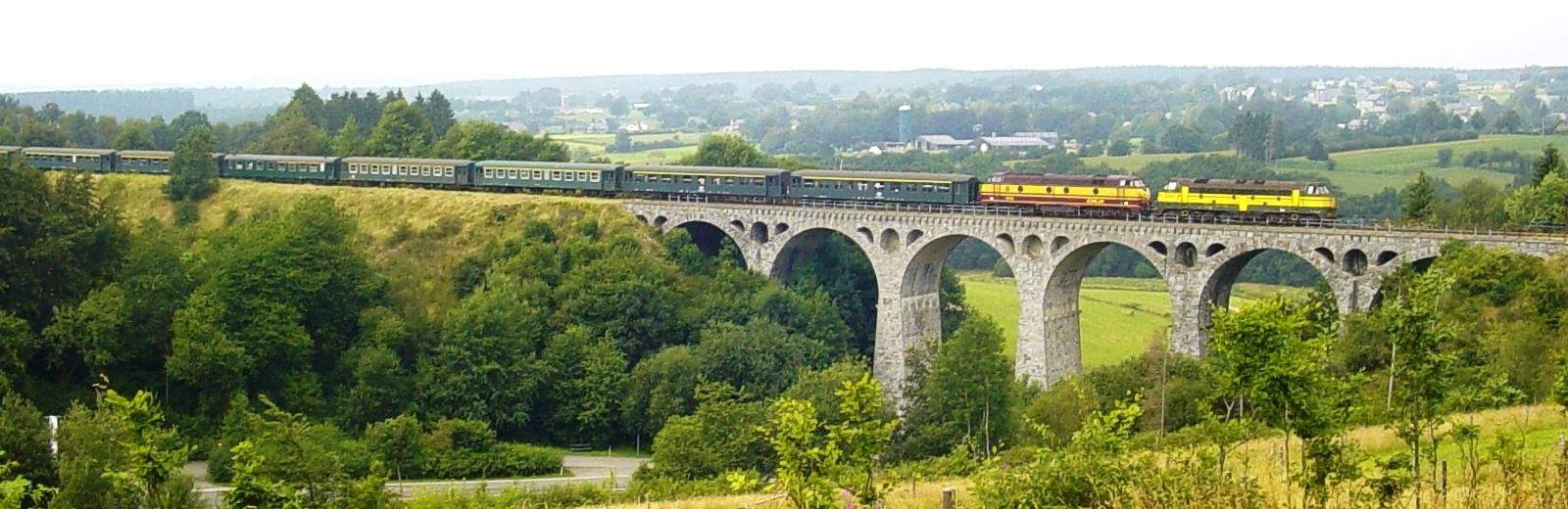 Bridge of Vennquerbahn railroad outside Bütgenbach, Wallonia, Belgium, in the area ceded to Belgium by Germany after World War I. It is 104 m long and 30 m high. This line was opened in 1912 [1] and operated for passenger trains until 1952 and for freight trains until 2003. The train in the picture was organized for a railfan tour by PFT-TSP association. The locomotives depicted are SNCB/NMBS 5307 & CFL 1805.